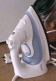 my pic. gfdl. pictures quite grainy. took it inside with no flash